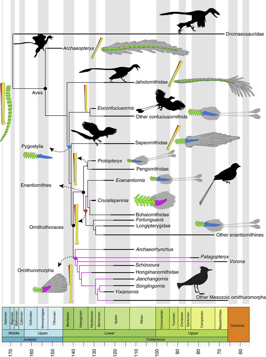 The tree, simplified from the strict consensus tree produced by our phylogenetic analysis, is time-scaled using the ‘minimal branch length’ method with a minimum branch length of 1 Myr (see Supplementary Fig. 5 for complete result and node support values). The thick lines indicate the temporal range of fossil taxa. An elongated fibula (in red) is developed in non-ornithothoracine Aves, and the most basal enantiornithines Protopteryx and Pengornithidae; a reduced fibula is convergently evolved in the Ornithuromorpha and derived enantiornithines. Cruralispennia preserves a plough-shaped pygostyle (in pink), which has long been considered unique to Ornithuromorpha (the pink branches). The apparent absence of tail fanning in Cruralispennia indicates that the plough-shaped pygostyle and tail fanning is evolutionarily decoupled in this lineage.